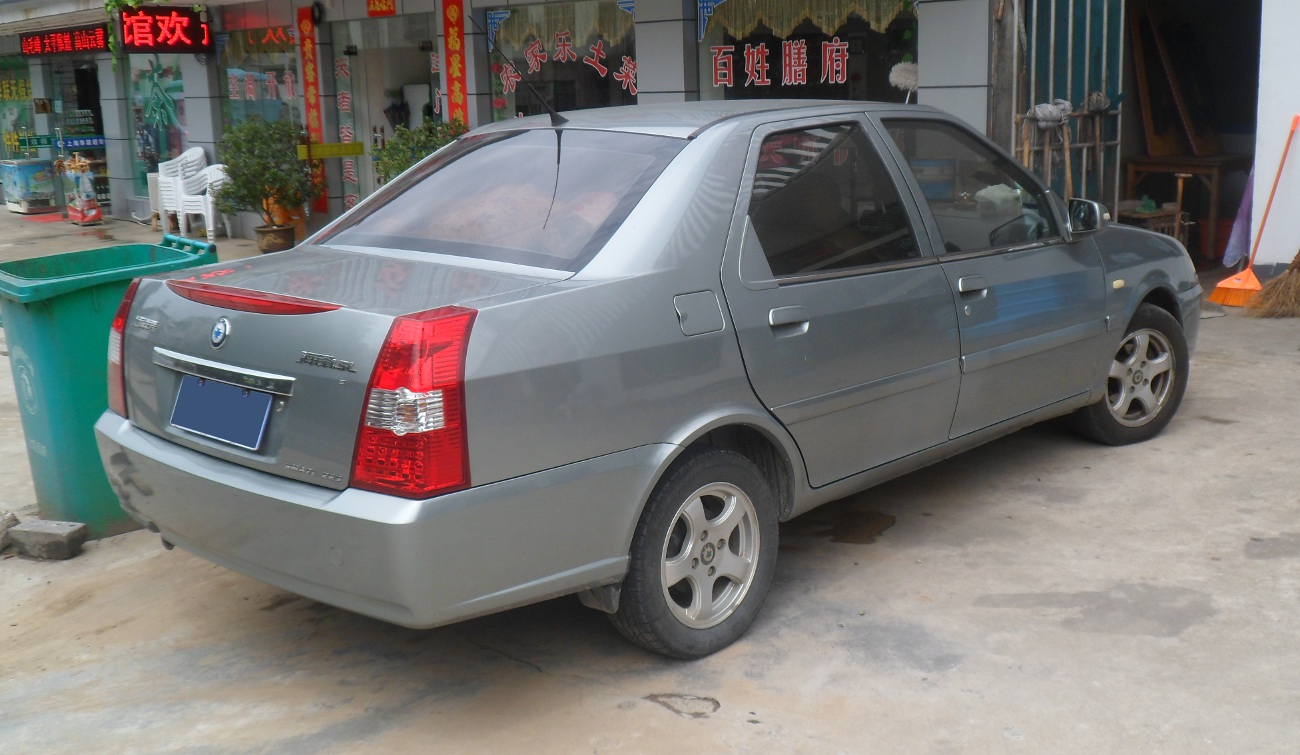 Shanghai Maple Haifeng photographed in Tangkou, Anhui province, China.